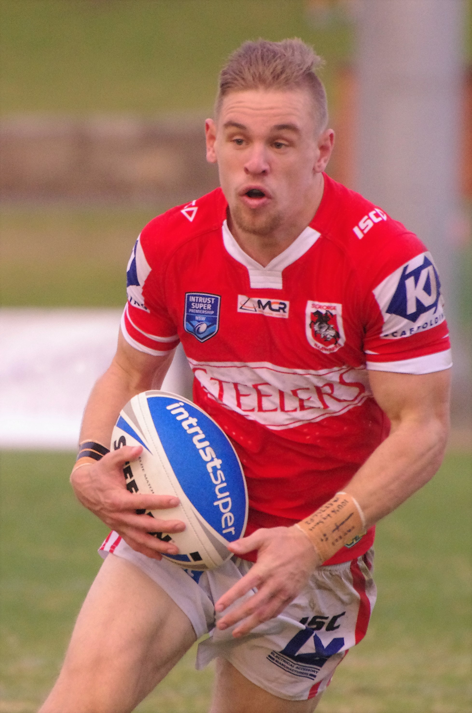 Matthew Dufty